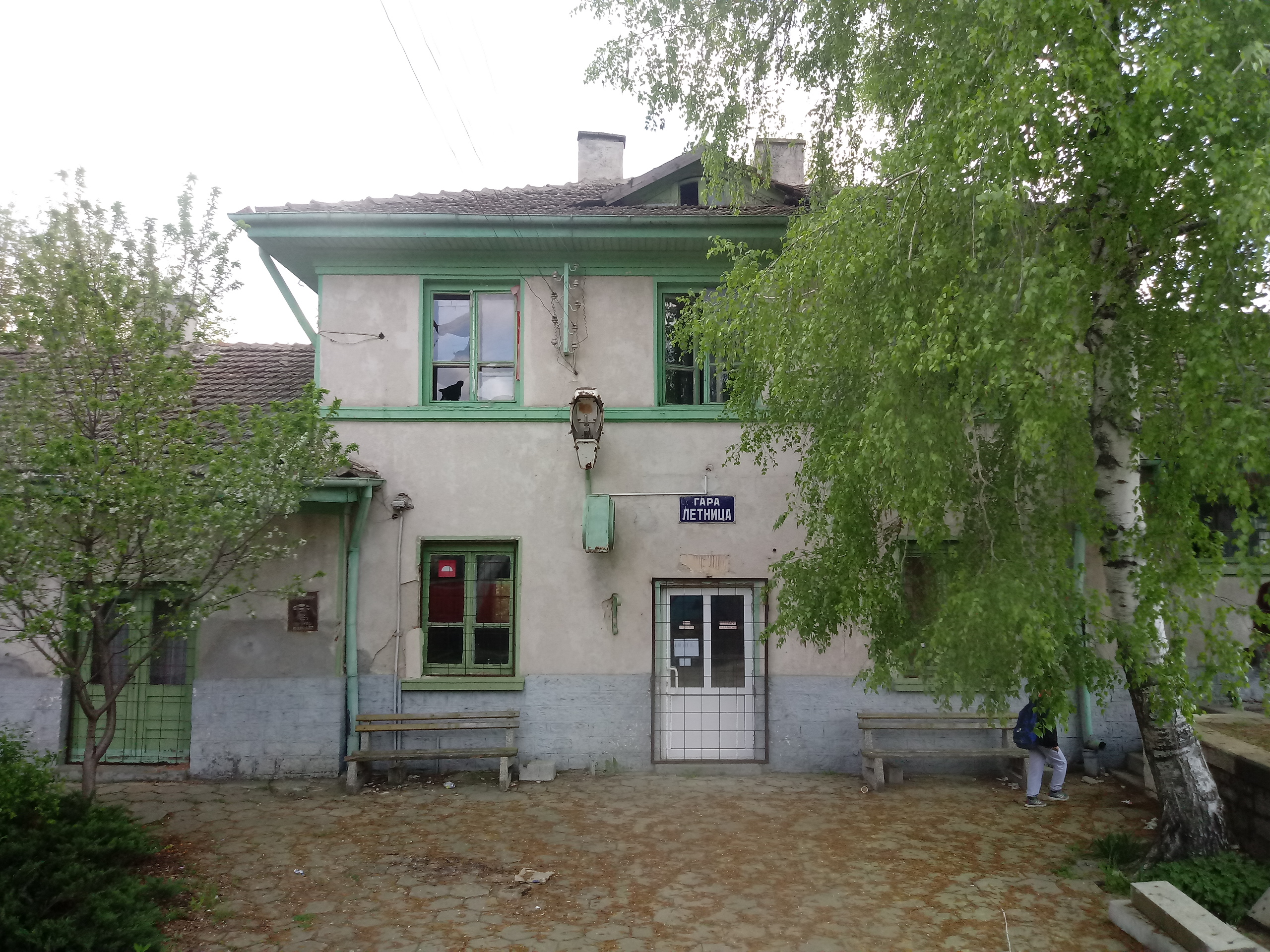 Railway station in the Bulgarian town of Letnitsa